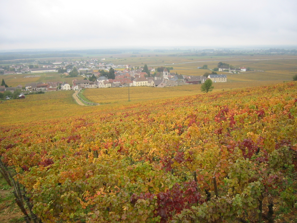 Vineyards in Morey Saint Denis in Burgundy in autumn